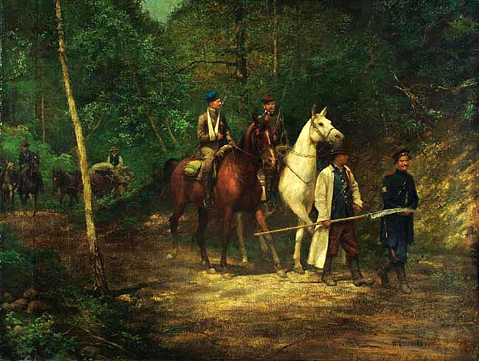 Polish insurgents 1863